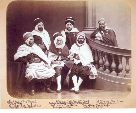 Algerian chieftains awarded the Legion of Honour during Napoleon III's visit to Algeria (1860) From left to right, standing: Abdel Kader Ben Daoud, agha of Tiaret - Si Mohamed Said Ben Ali Chérif, bachagha of Chellata, general counsellor of Constantine, Si Slimane Ben Siam, Agha of Miliana From left to right, sitting: Si Tahar Ben Mehiaddin, bachagha of Beni-Slimane - Ben Yahya ben Aïssa bachagha of Titteri - Bou Alem Ben Chérifa, bachagha of Djendels